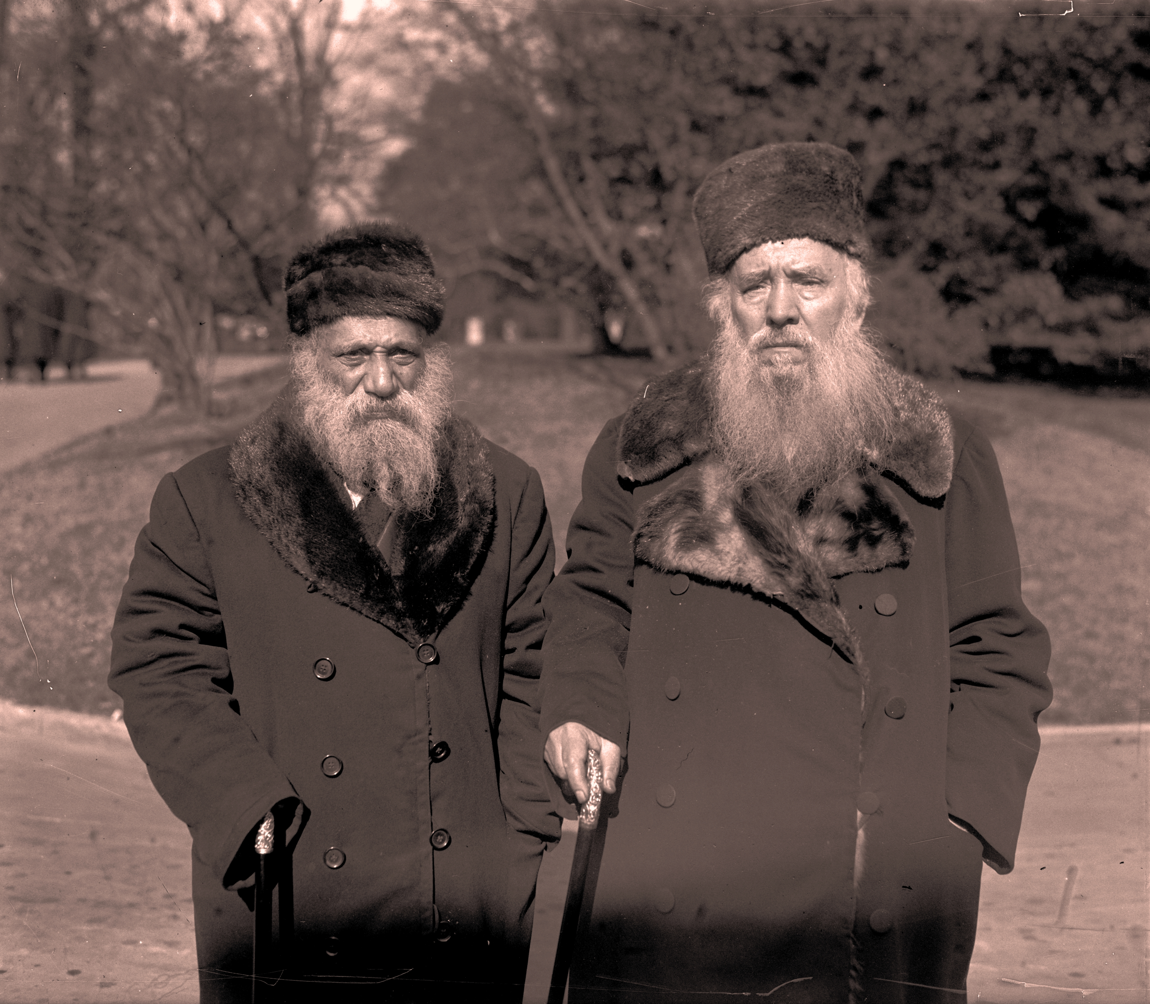 Chief Rabbis Abraham Yudelovitch & G. Wolf Margolis, 11/10/25